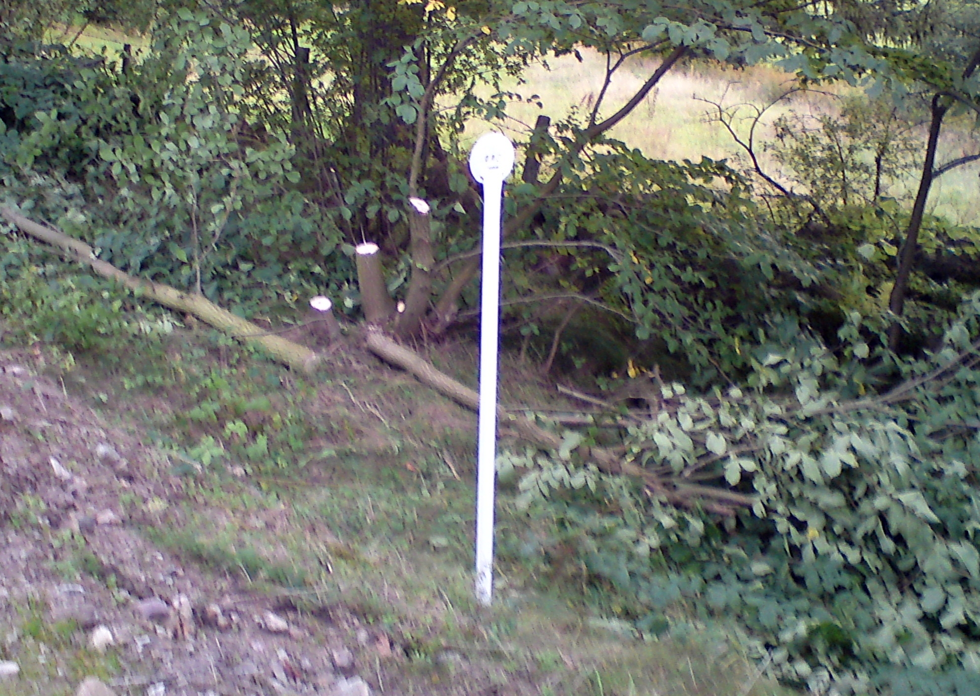 Radius pole